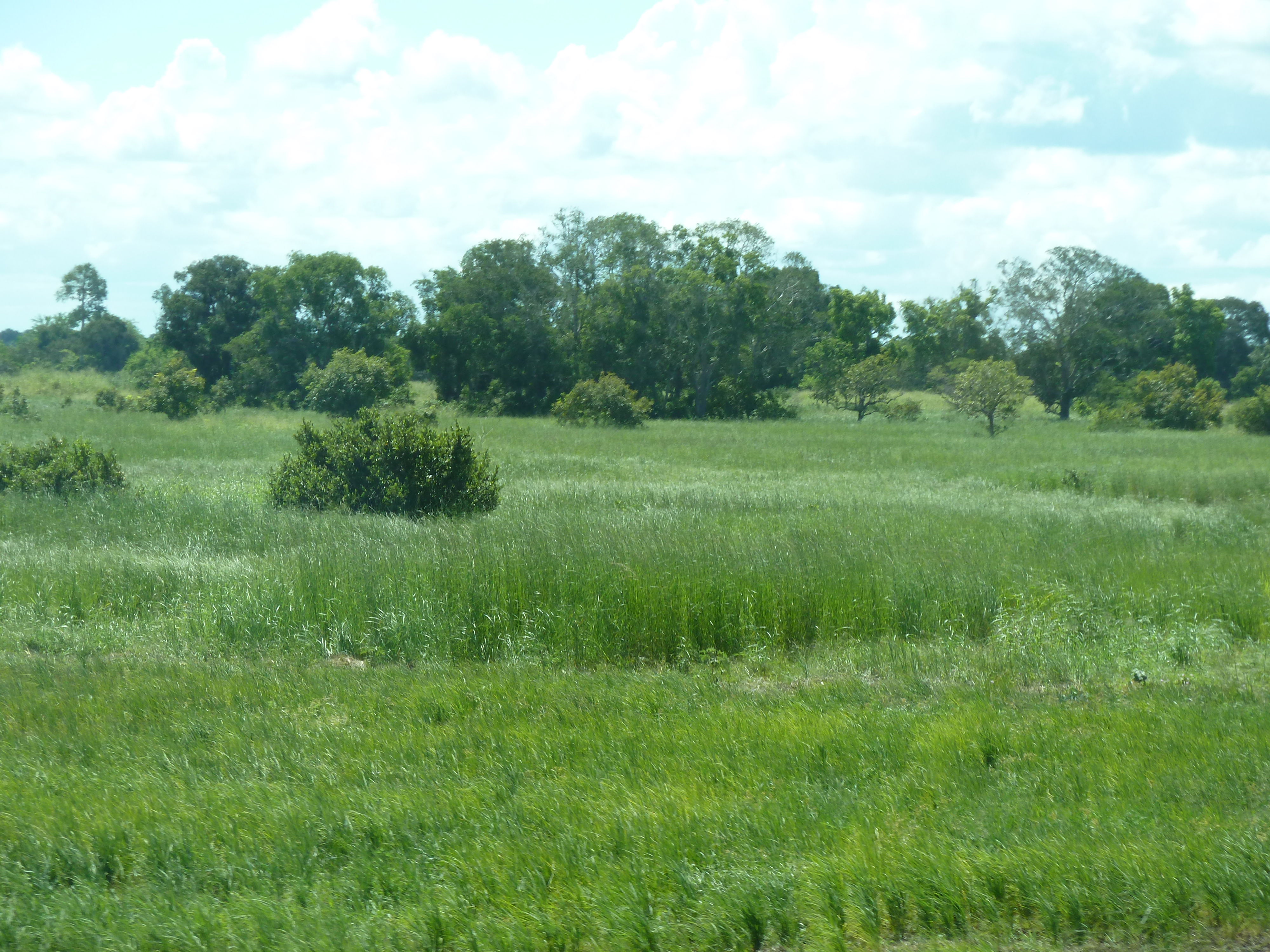 Rice cultivation near the Rufiji river